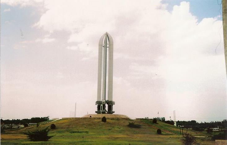 A view from Iğdır